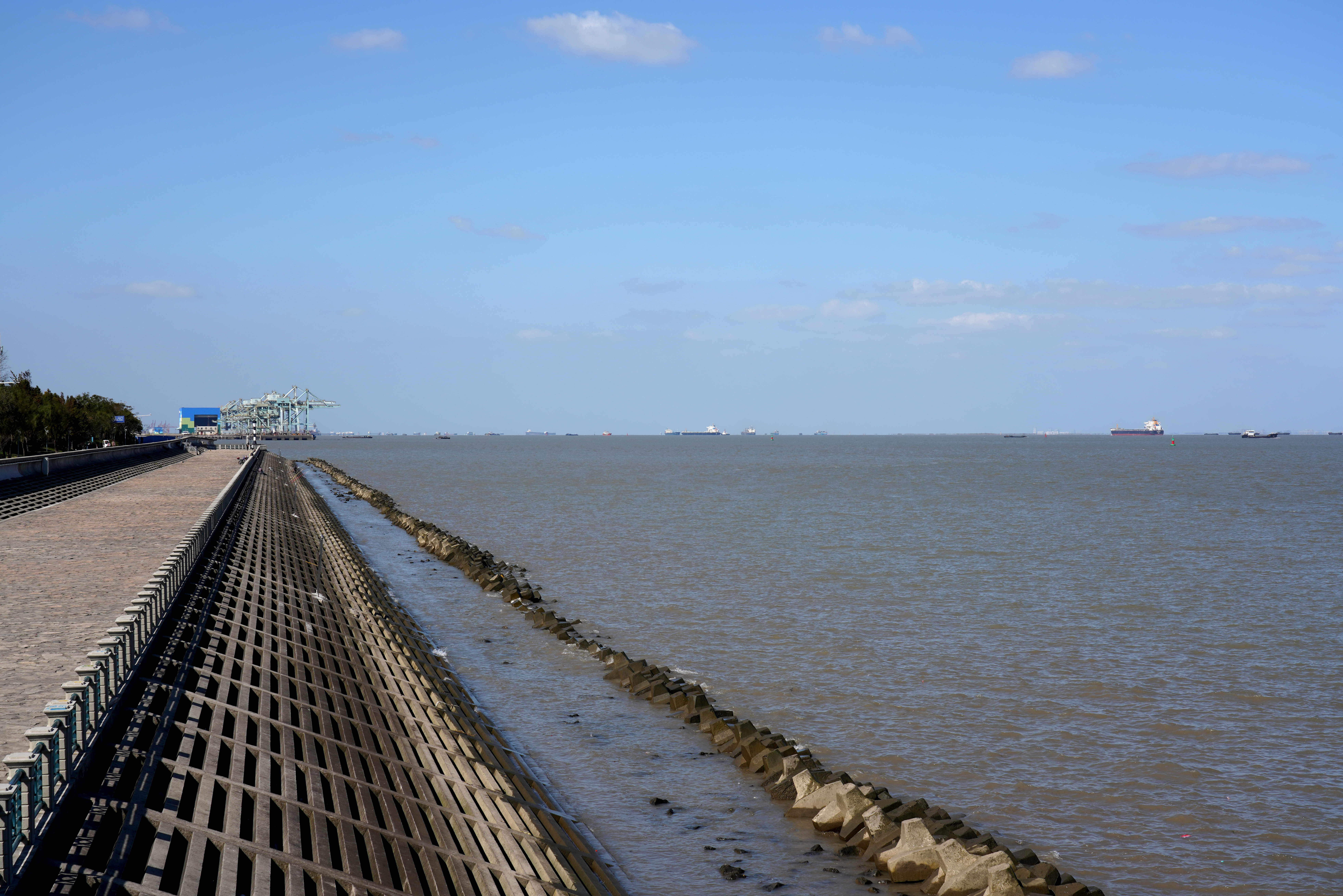 Bank of Yangtze River in Shanghai Baoshan Section， China.